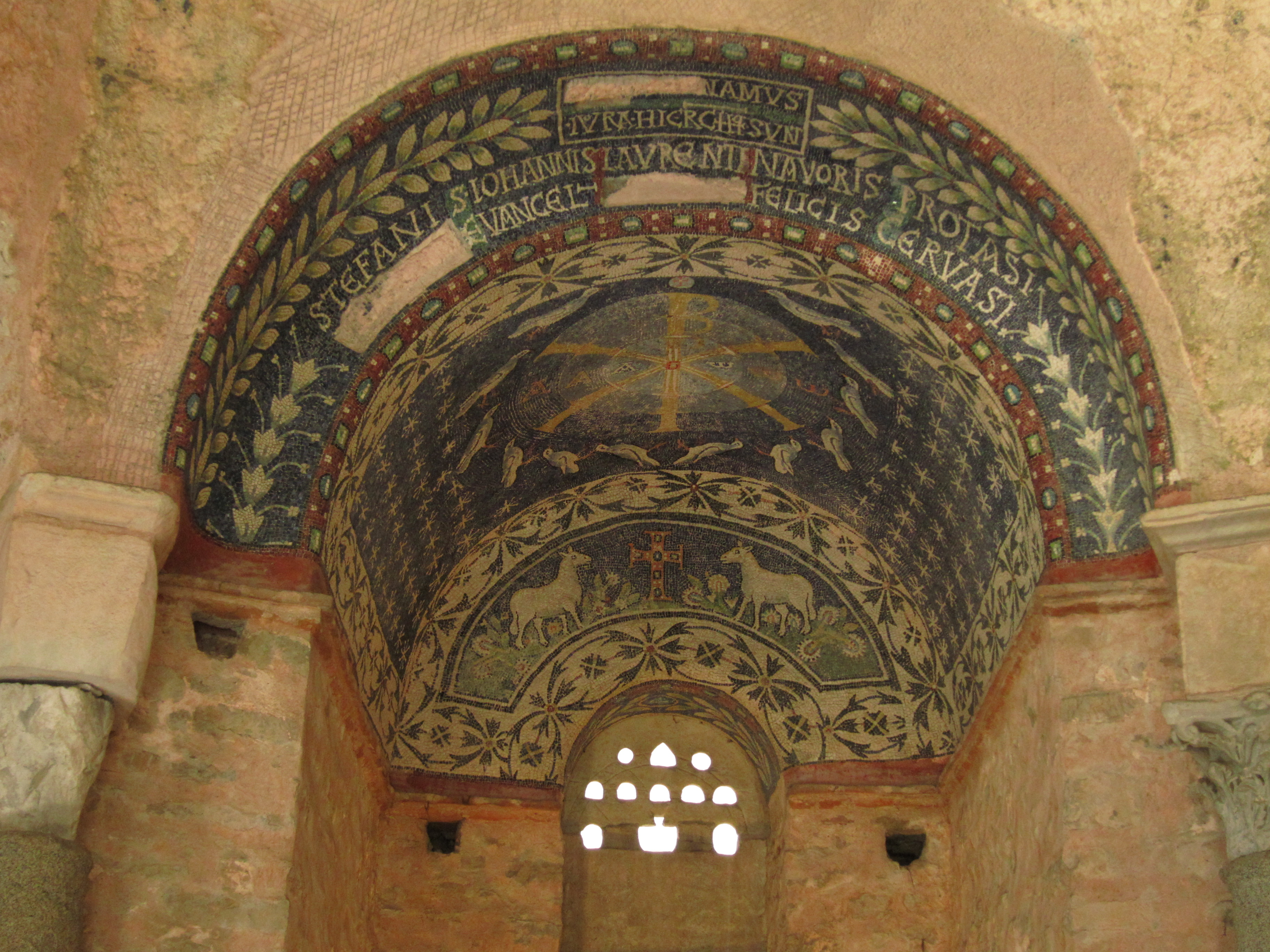 Baptistry interior